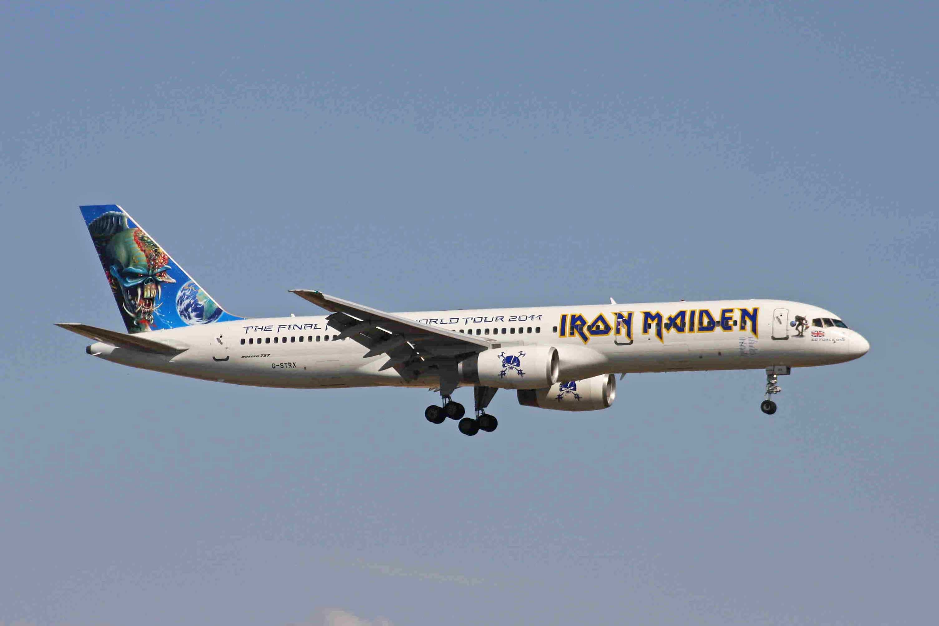 Operating for the summer retaining it's 'Iron Maiden' tour c/scheme